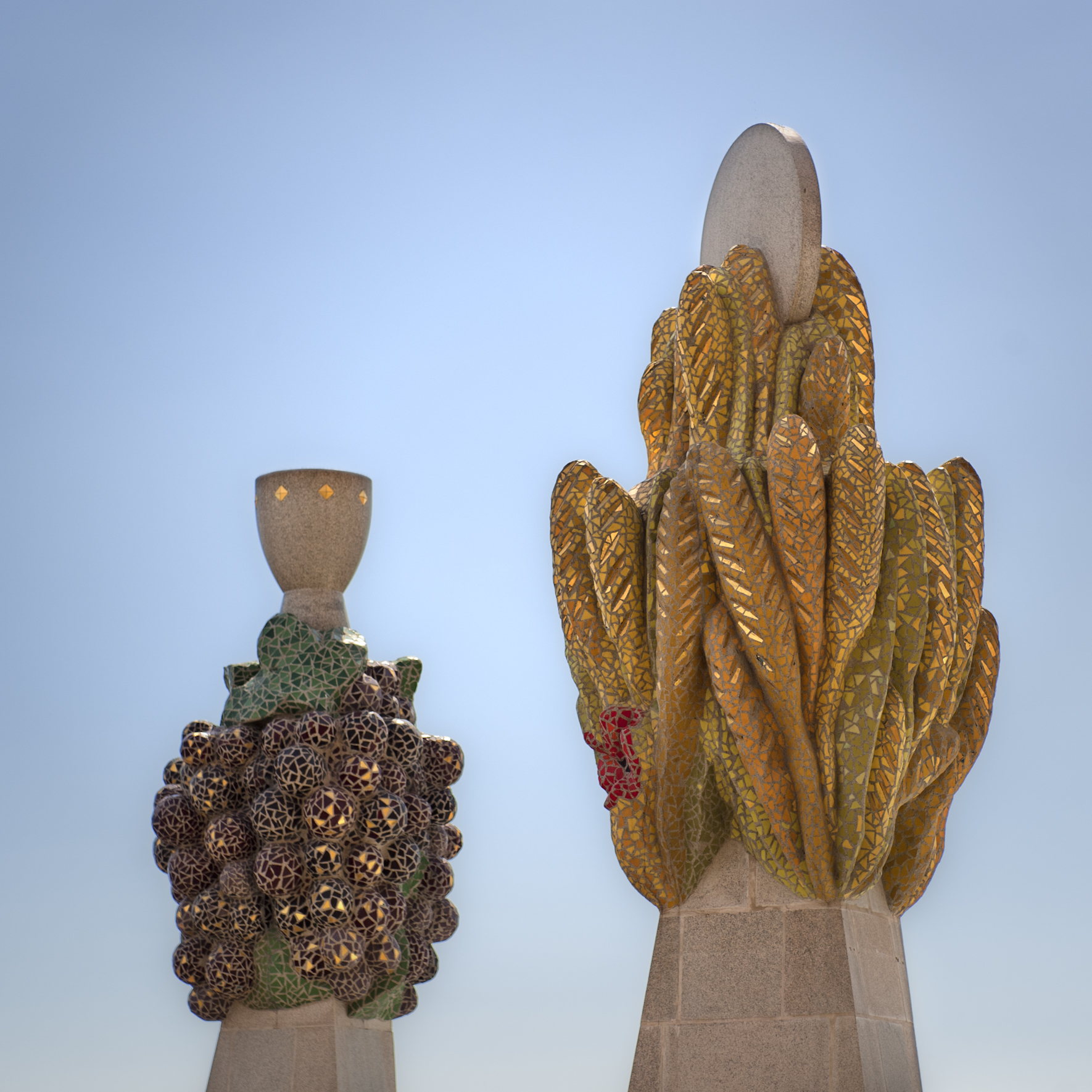 Pinnacles representing the Eucharist by Etsuro Sotoo